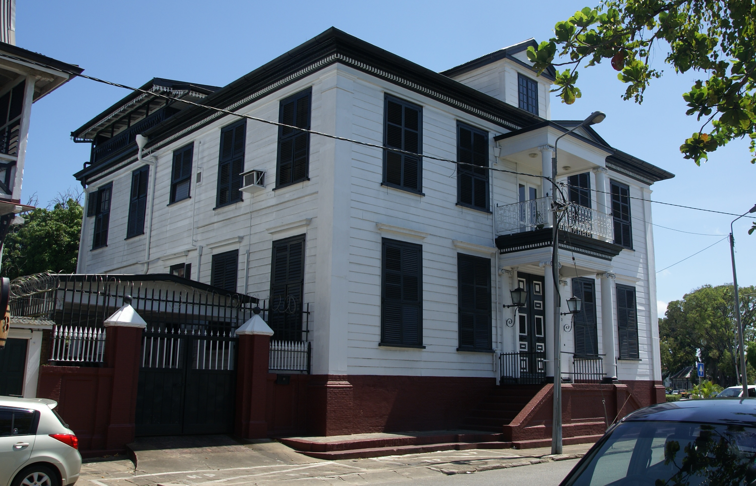 Waterkant 2, Paramaribo, Surinam.